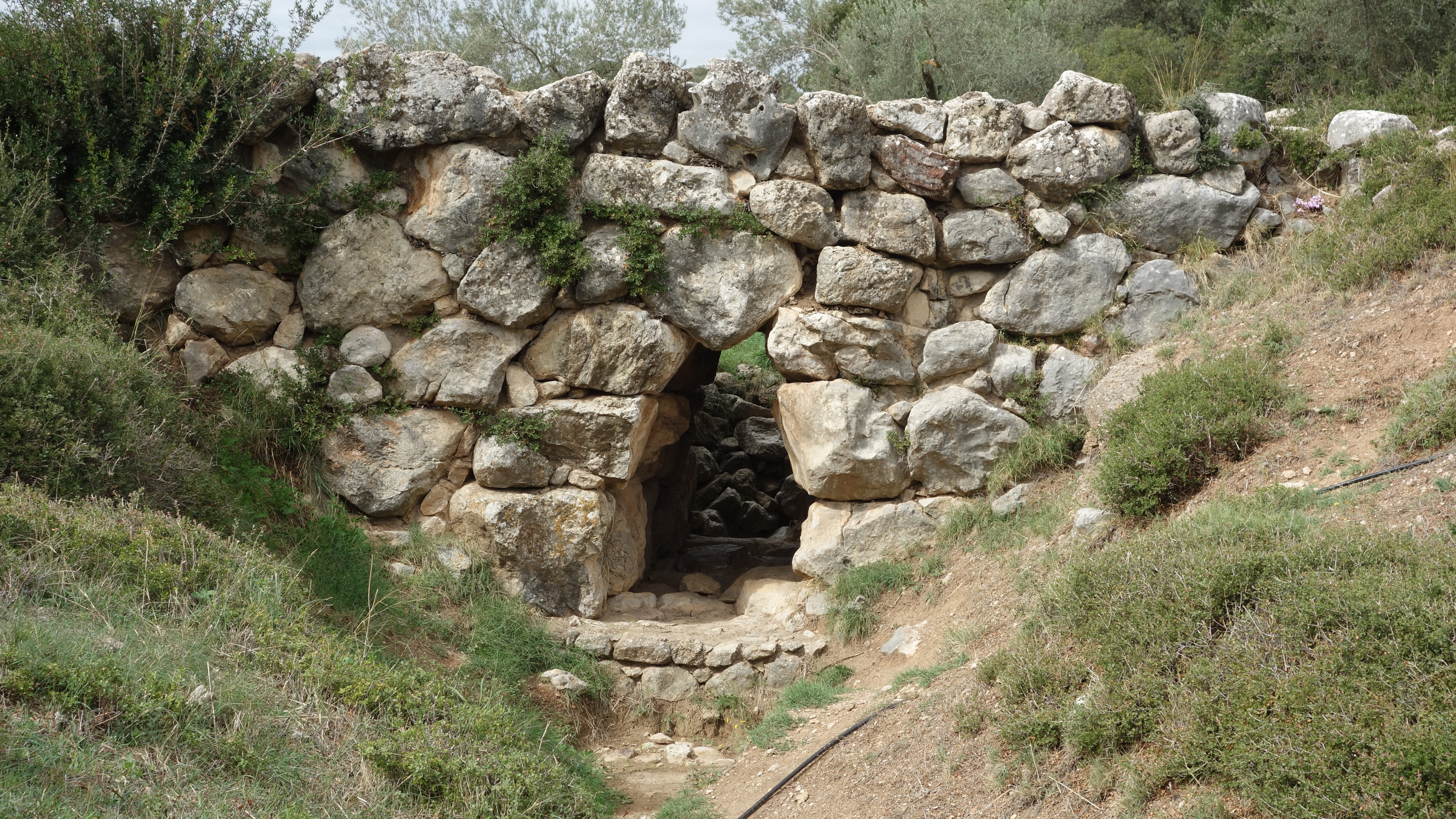 Surviving example of Mycenaean bridge construction in Argolis, Peloponnesos